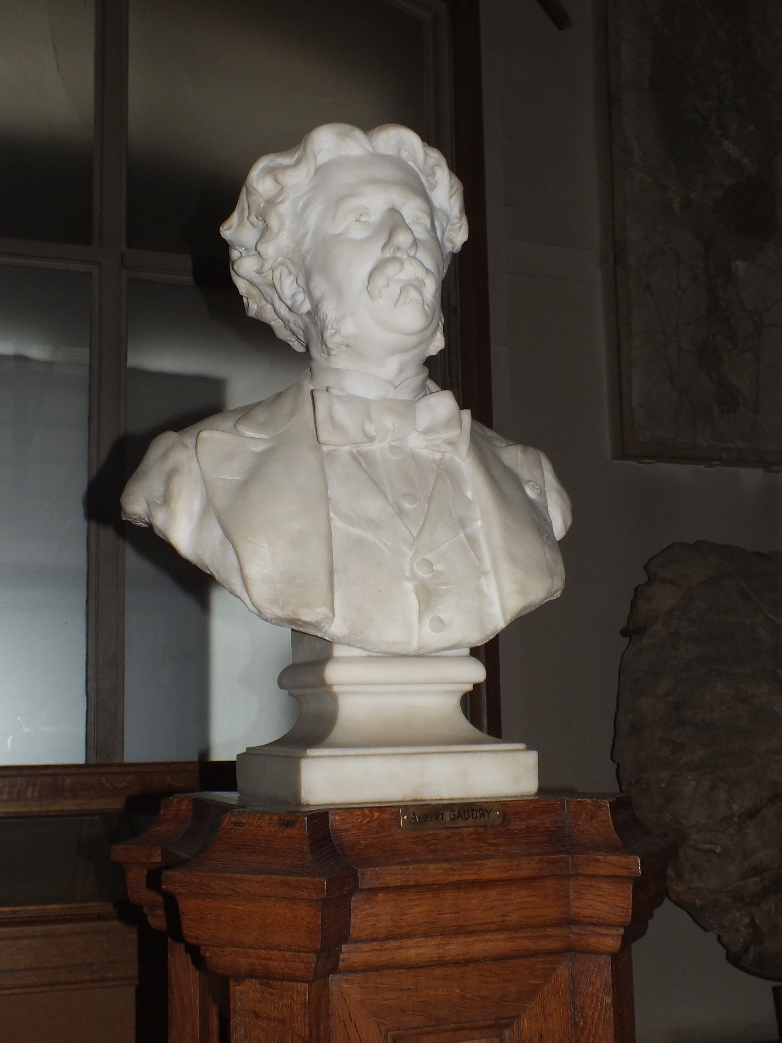 At the entrance of the Gallery of Paleontology (Muséum national d'histoire naturelle, Paris), the bust of French paleontologist Albert Gaudry (1827-1908), sculpted in 1896 by Louis-Ernest Barrias (1841-1905).